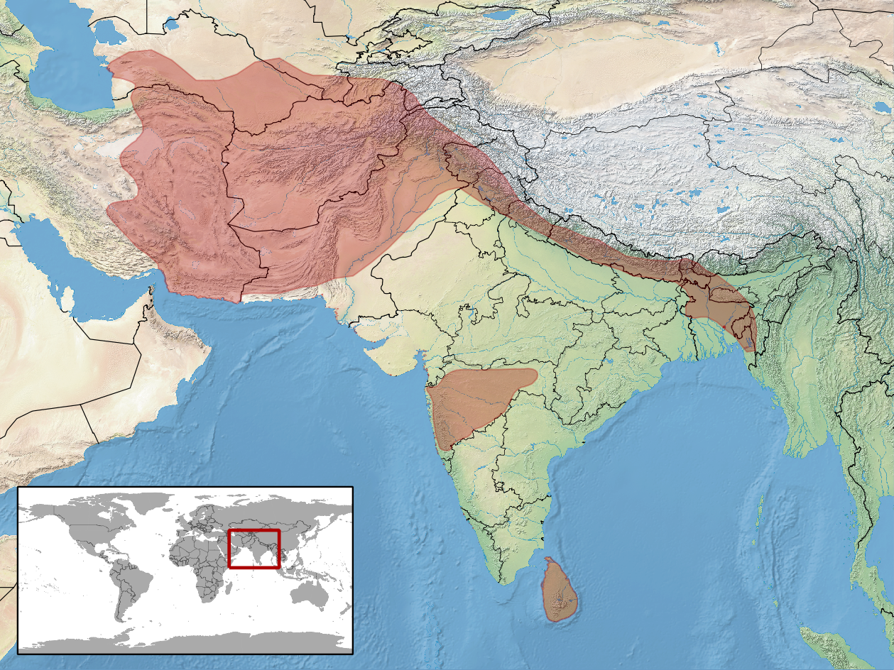 geographic distribution of Boiga trigonata (Native: Afghanistan; Bangladesh; India; Iran, Islamic Republic of; Nepal; Pakistan; Sri Lanka; Tajikistan; Turkmenistan; Uzbekistan)